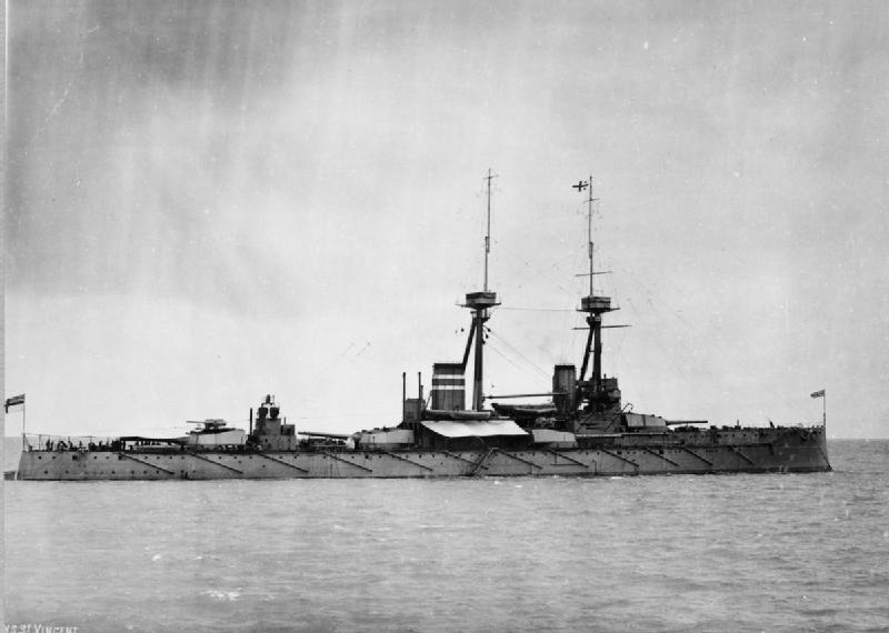 British Battleships of the First World War HMS ST VINCENT at anchor, 1911.